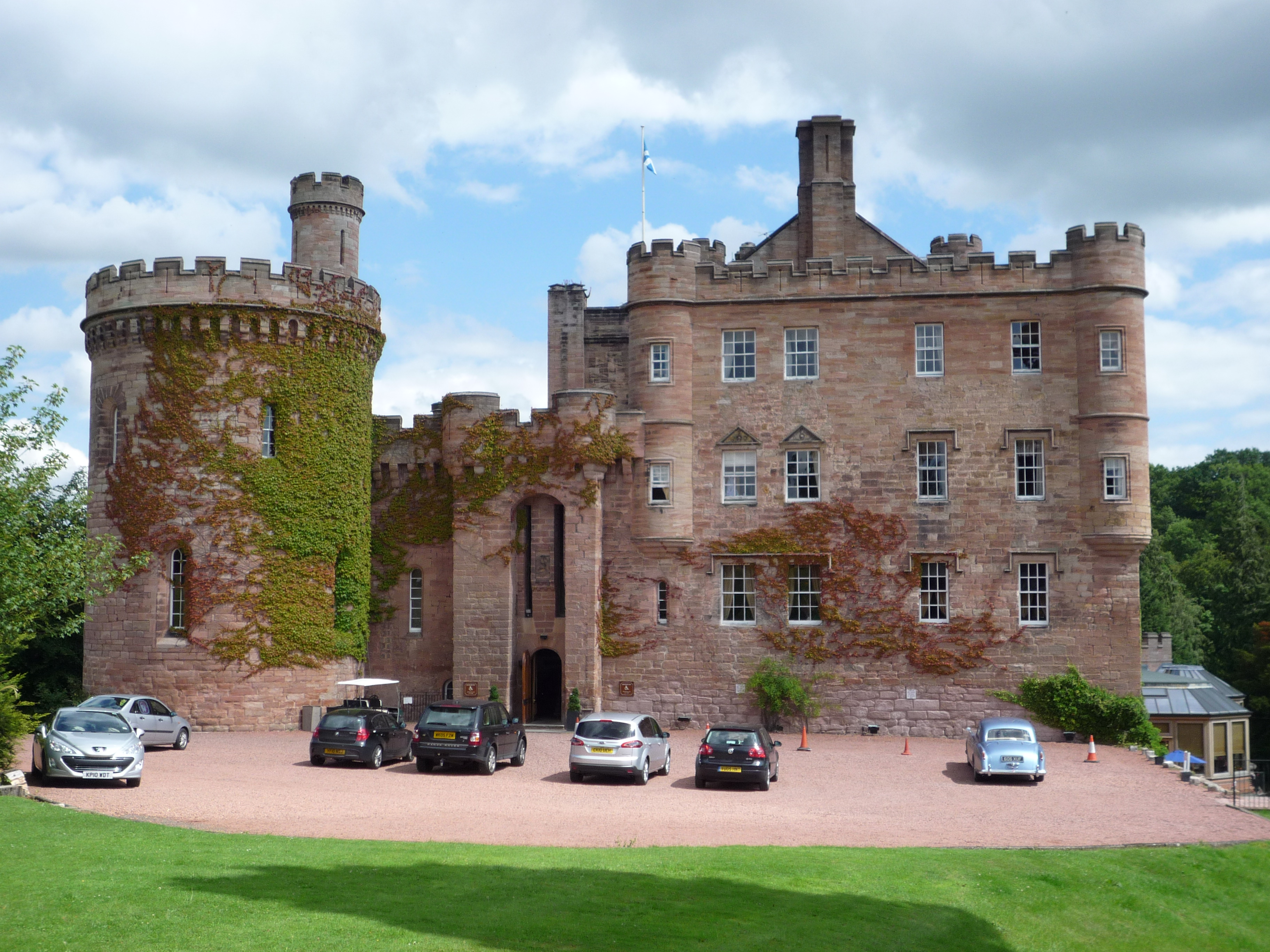 The west front of Dalhousie Castle near Bonnyrigg, Midlothian, Scotland. More images.